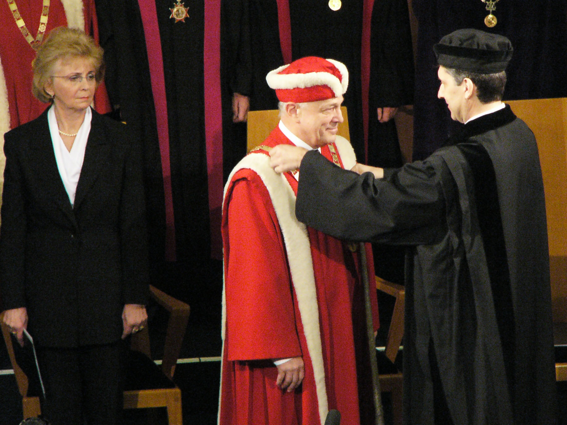 Inauguration of Lubomír Dvořák (in the centre of photo) as a rector of Palacký University, Olomouc February 23, 2006. Left: preceding rector Jana Mačáková. Right: chairman of academy senate Roman Kubínek.